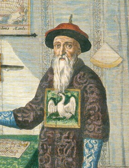 Detail of a larger portrait of German Jesuit Johann Adam Schall von Bell (1592–1666), who was a Jesuit missionary in China (Ming and Qing dynasties) from 1622 to his death in 1666.